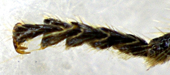 Tarsus of hind leg of Tillus elongatus